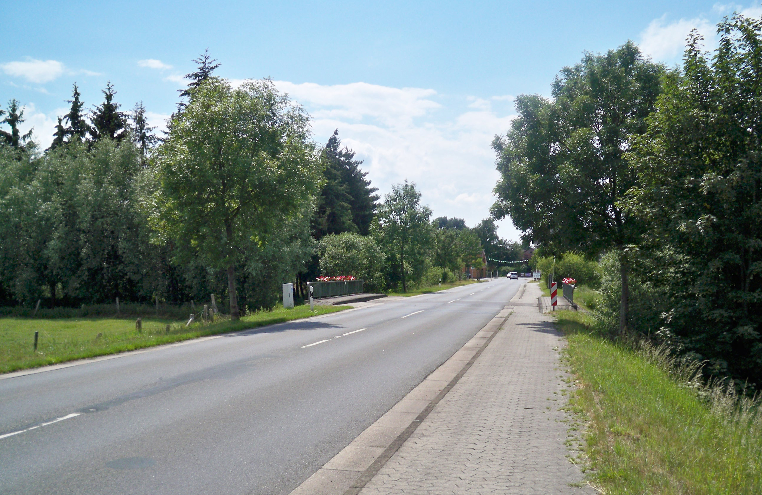 Ahnebeck, Lower Saxony, view from Croya